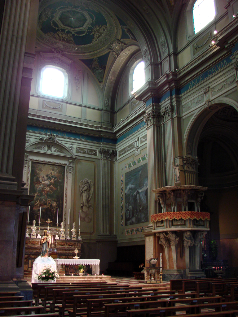 Inside the church of Garlasco